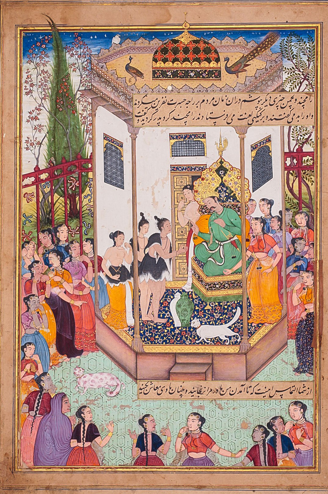 Ramayana